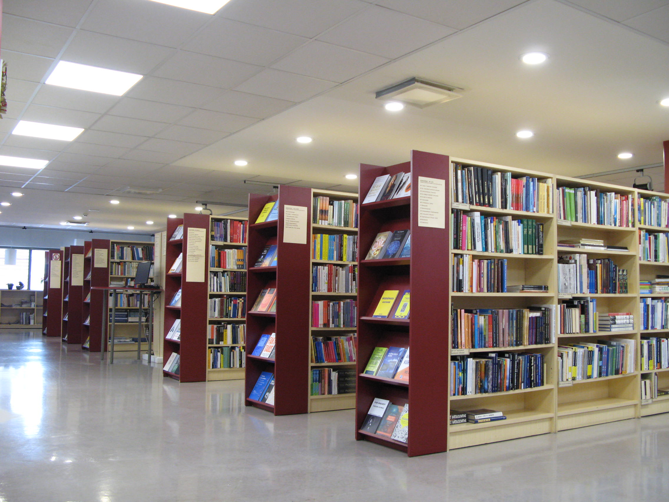 Interior of Viljandi Town Library